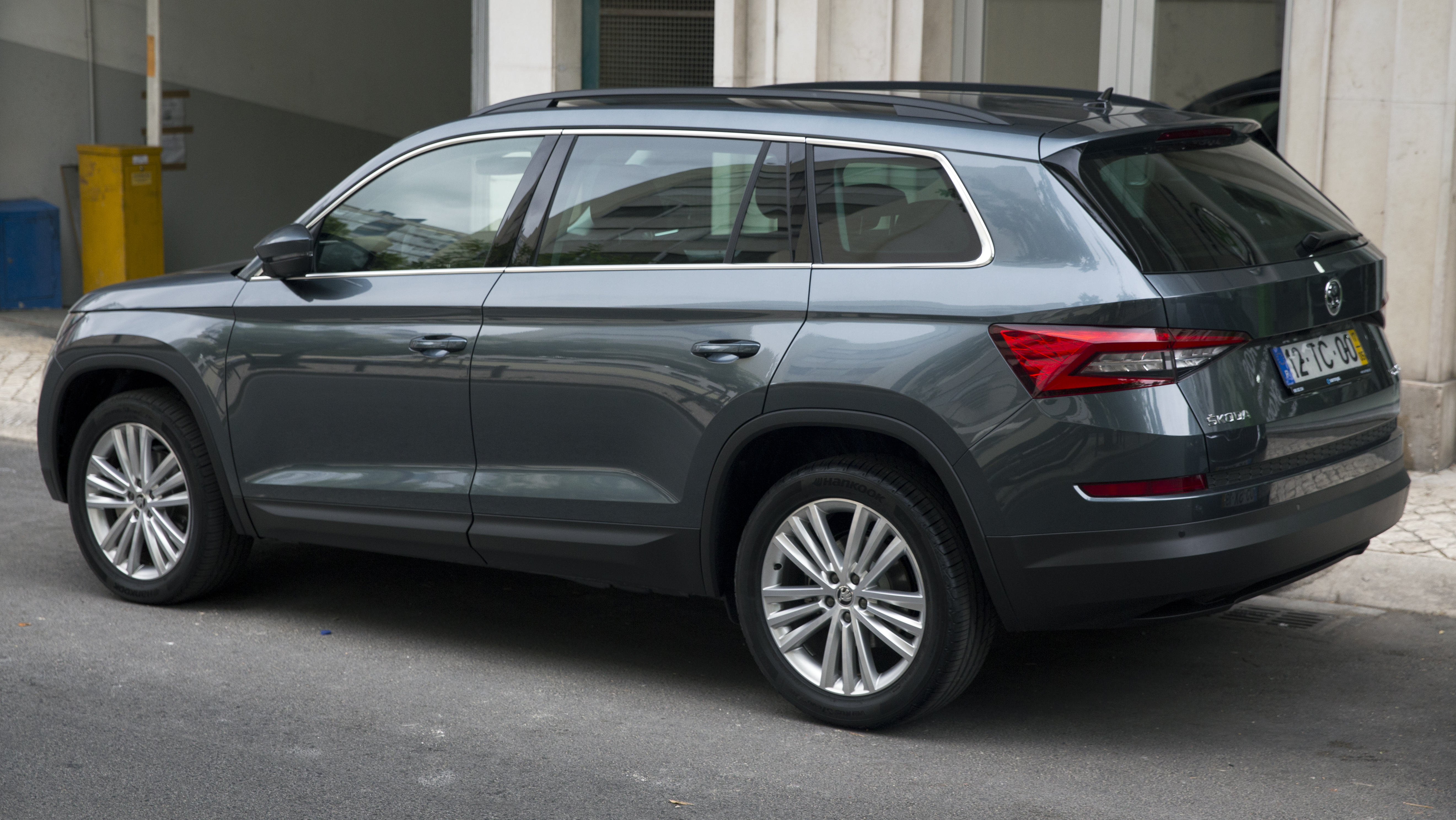 A 2017 Škoda Kodiaq 2.0 TDI (150ps) in Lisbon, Portugal.